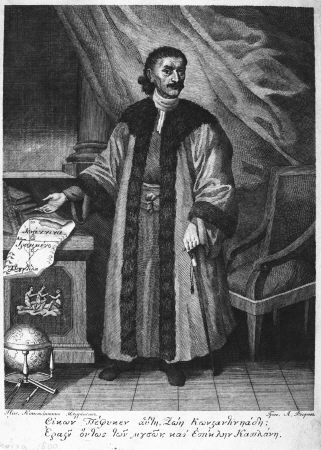 Zois Kaplanis (1736-1806): Greek merchant